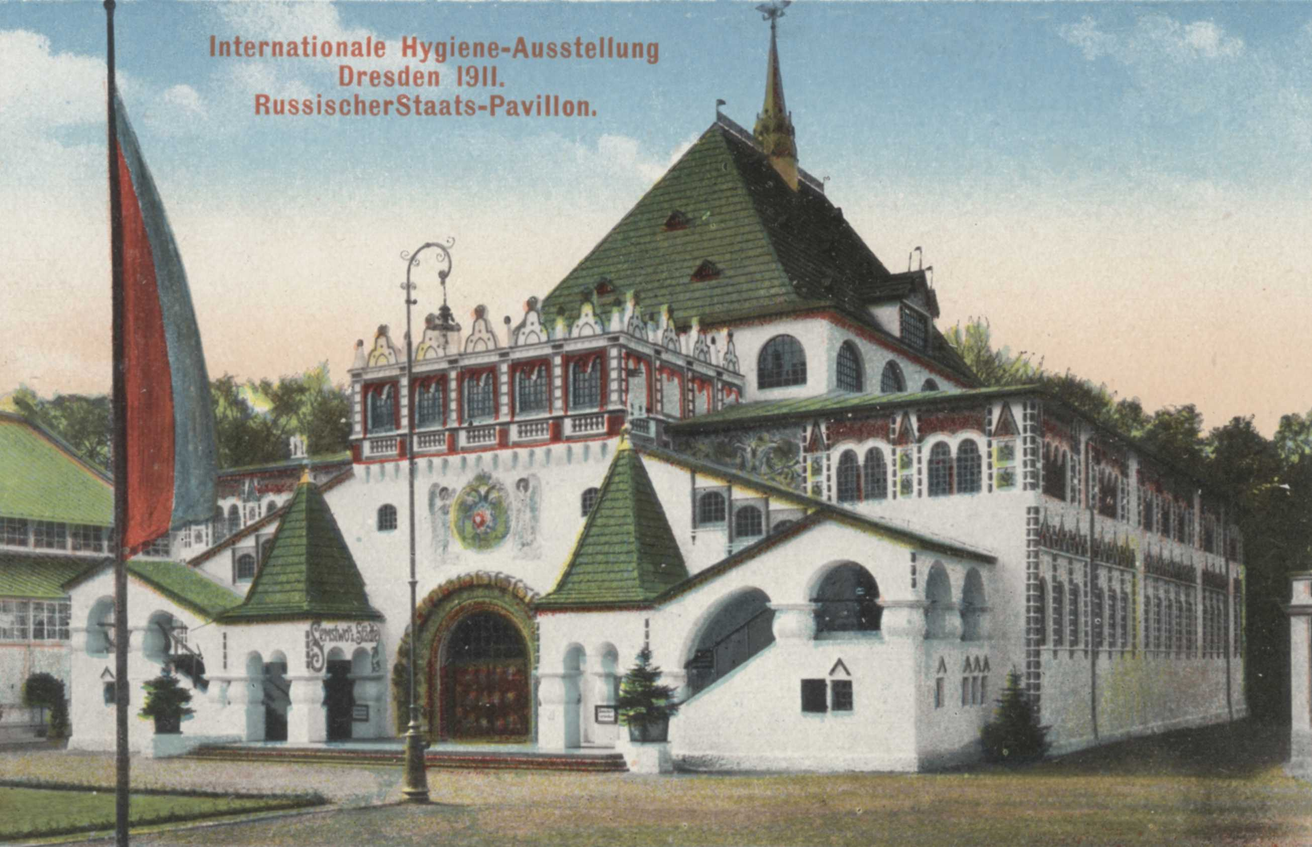 International Hygiene Exhibition Dresden 1911 (Russian state pavilion), photo: unknown